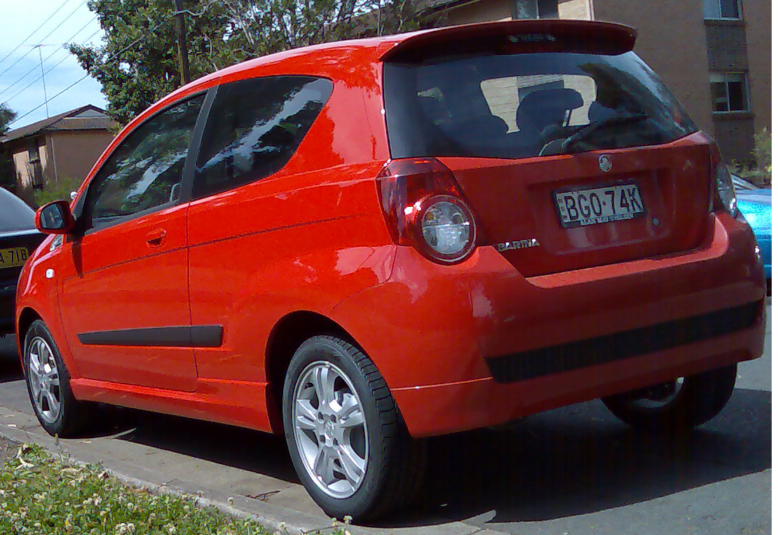 2008 Holden Barina (TK MY09) 3-door hatchback. Photographed in Gymea, New South Wales, Australia.